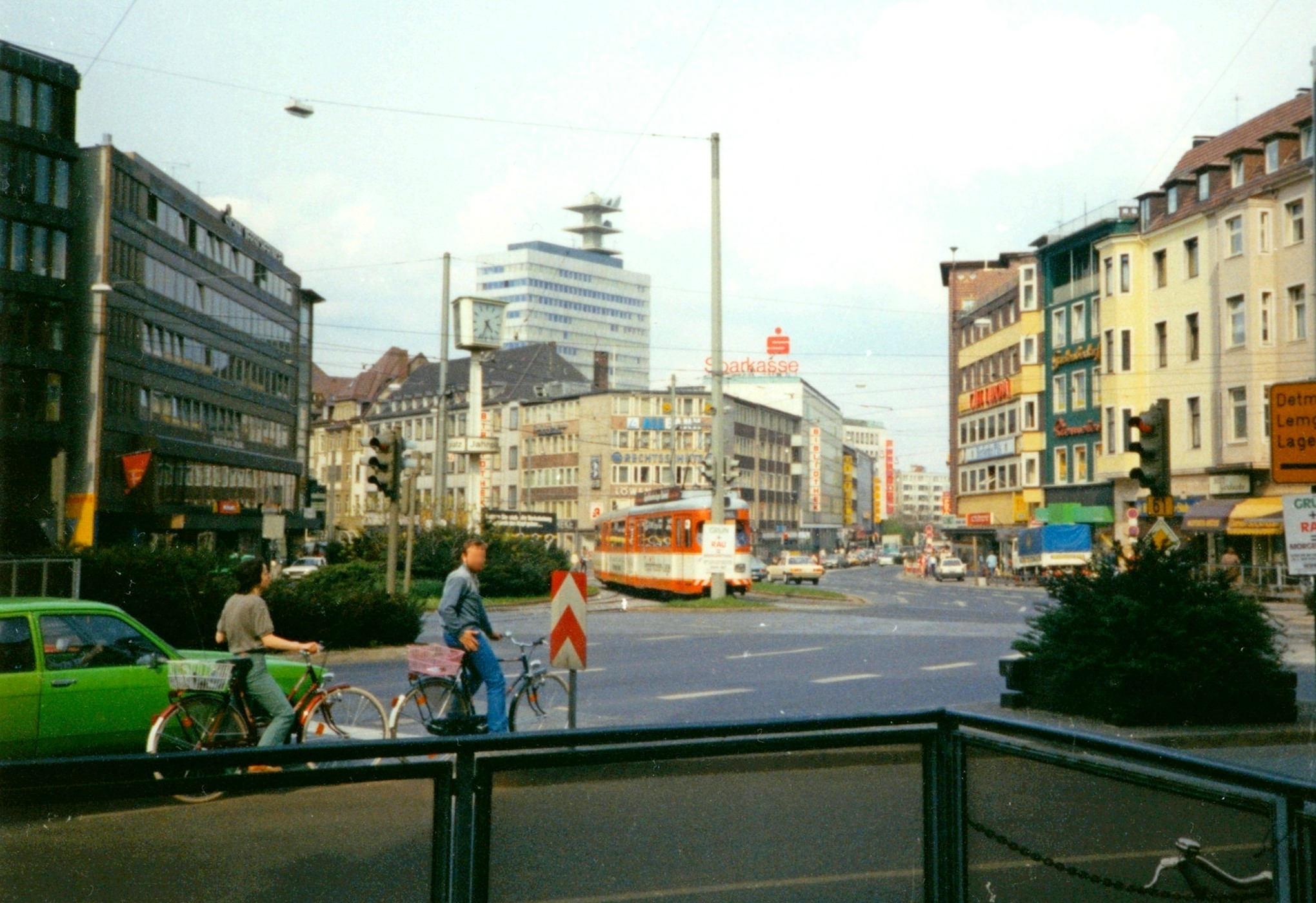 Bielefeld, Jahnplatz with tram in 1985